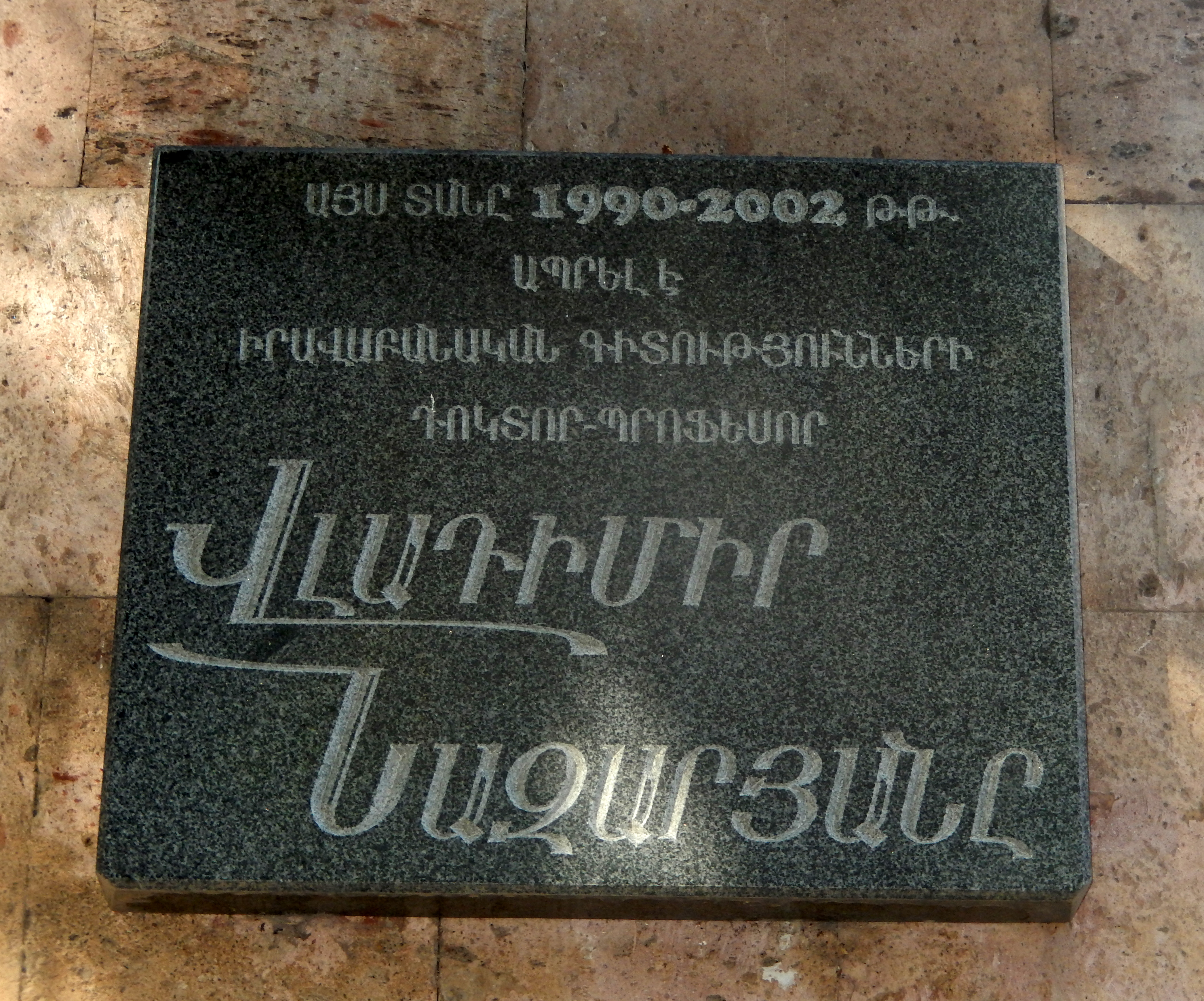 Vladimir Nazaryan's plaque